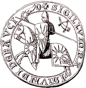 Seal (device) Baux-Orange